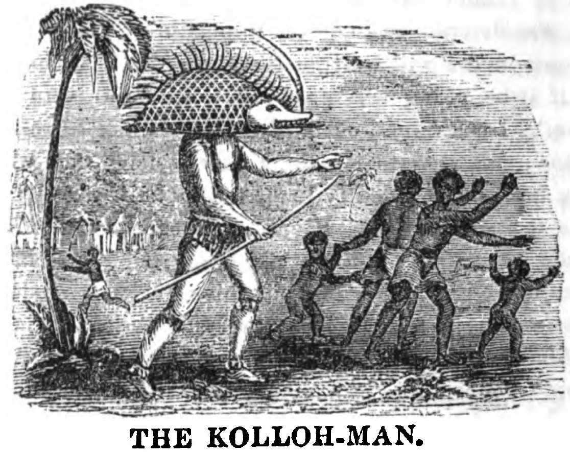 The Kolloh-Man (January 1853, X, p.6)